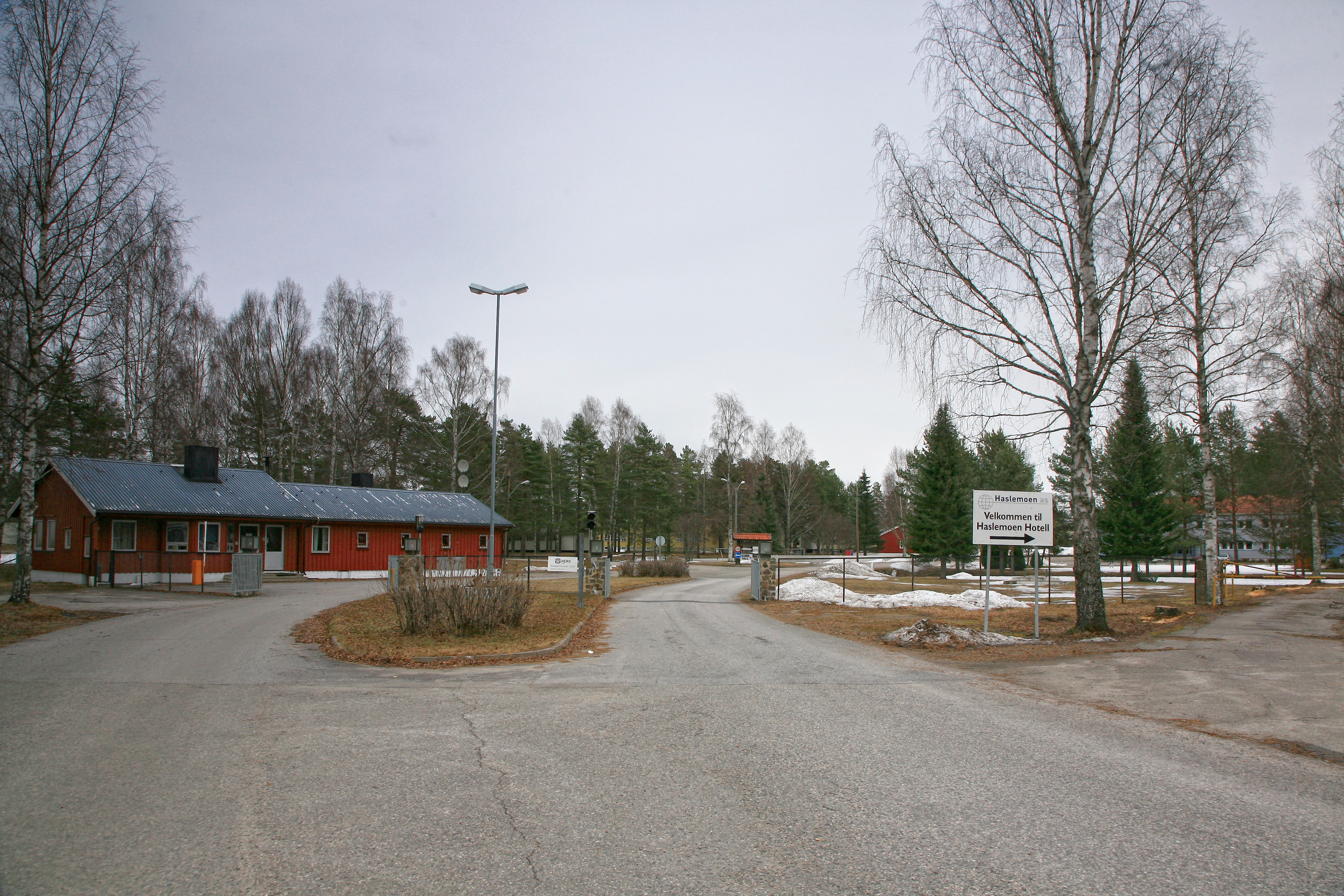 Entrance to HaslemoenNorsk bokmål: Innkjøring til nedlagte Haslemoen leir